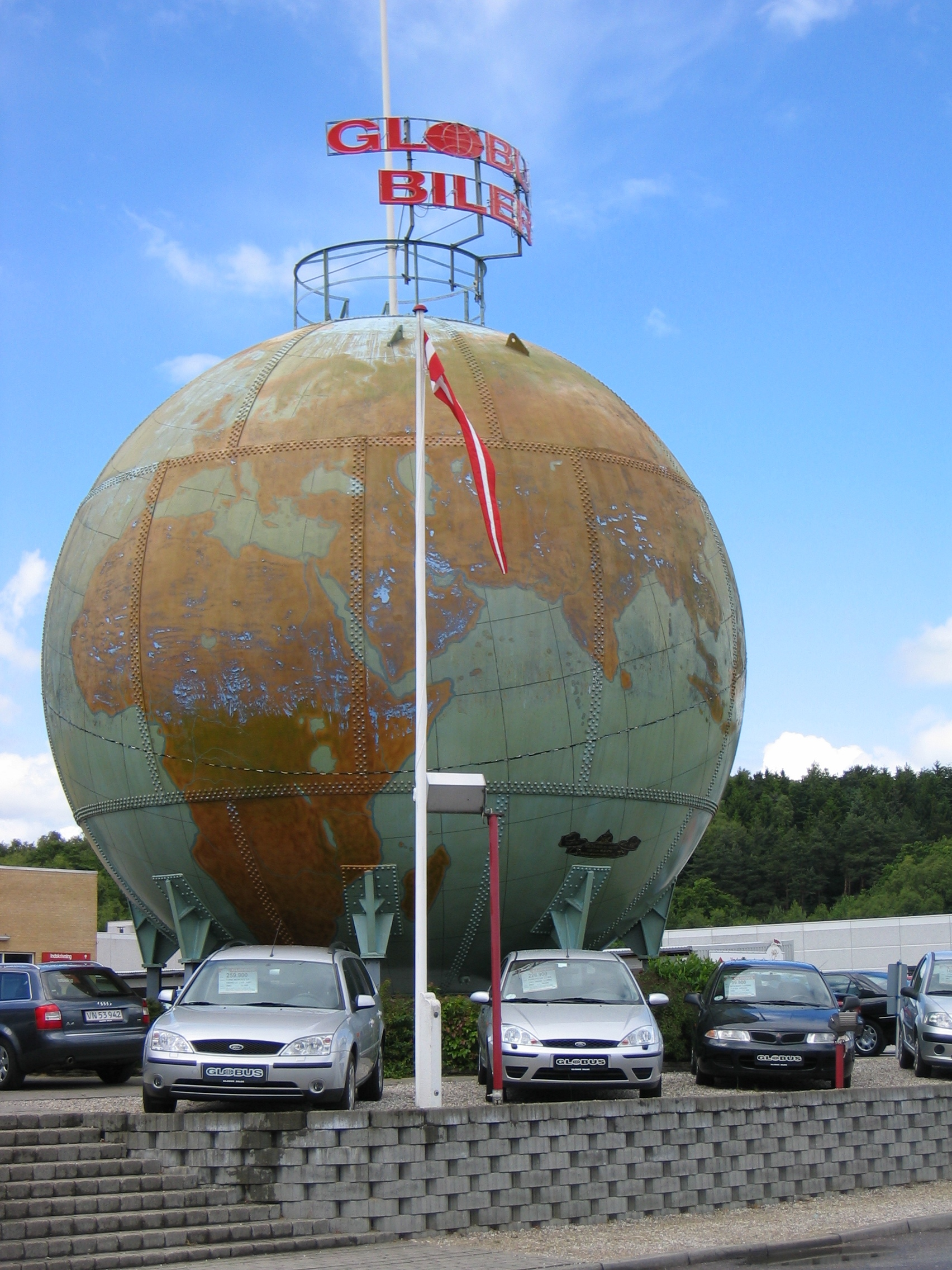 The largest globe, located in Silkeborg, Denmark.